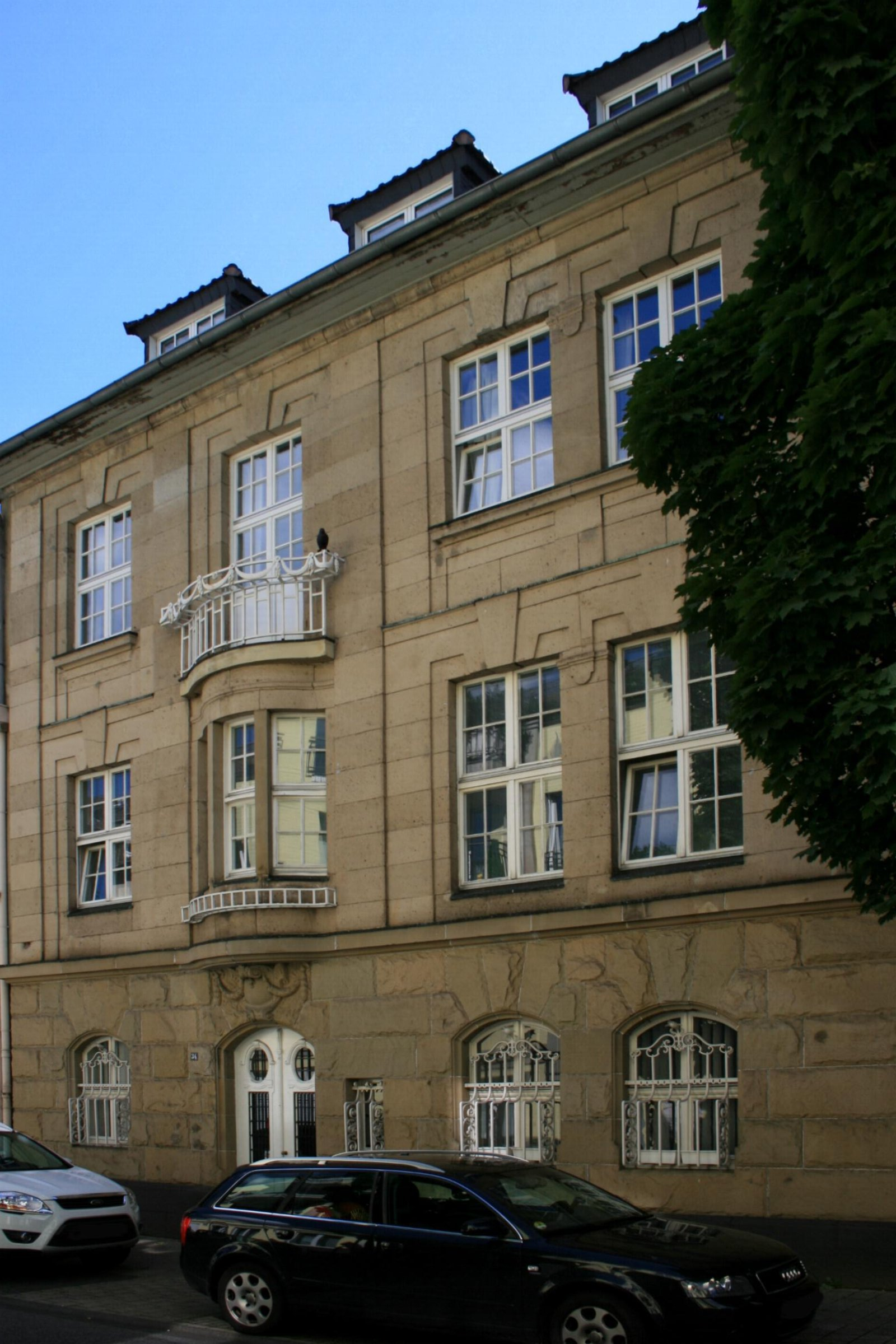 Cultural heritage monument No. H 070 in Mönchengladbach